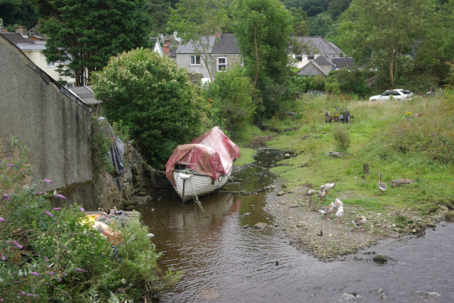 Afon Gwaun, Lower Town, Fishguard, near to Fishguard/Abergwaun, Pembrokeshire/Sir Benfro, Great Britain. The river bank seen from the A487 bridge; the Gwaun is not tidal above this point.